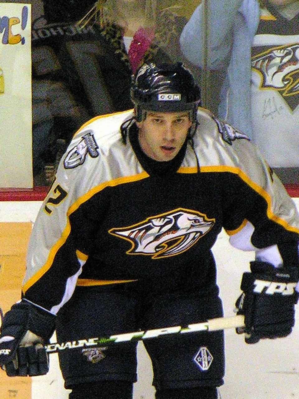 Scott Nichol, ice hockey player, here seen playing for the Nashville Predators